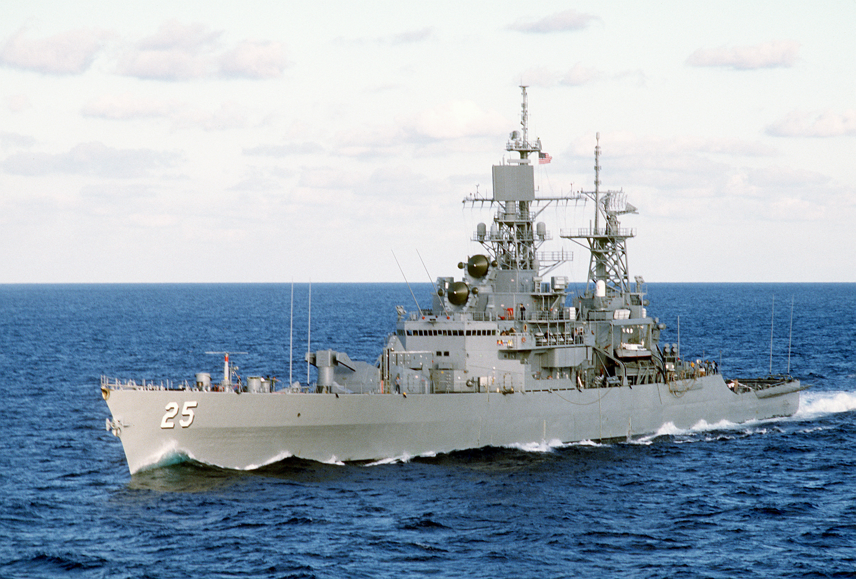 A port bow view of the nuclear-powered guided missile cruiser USS BAINBRIDGE (CGN-25) underway.